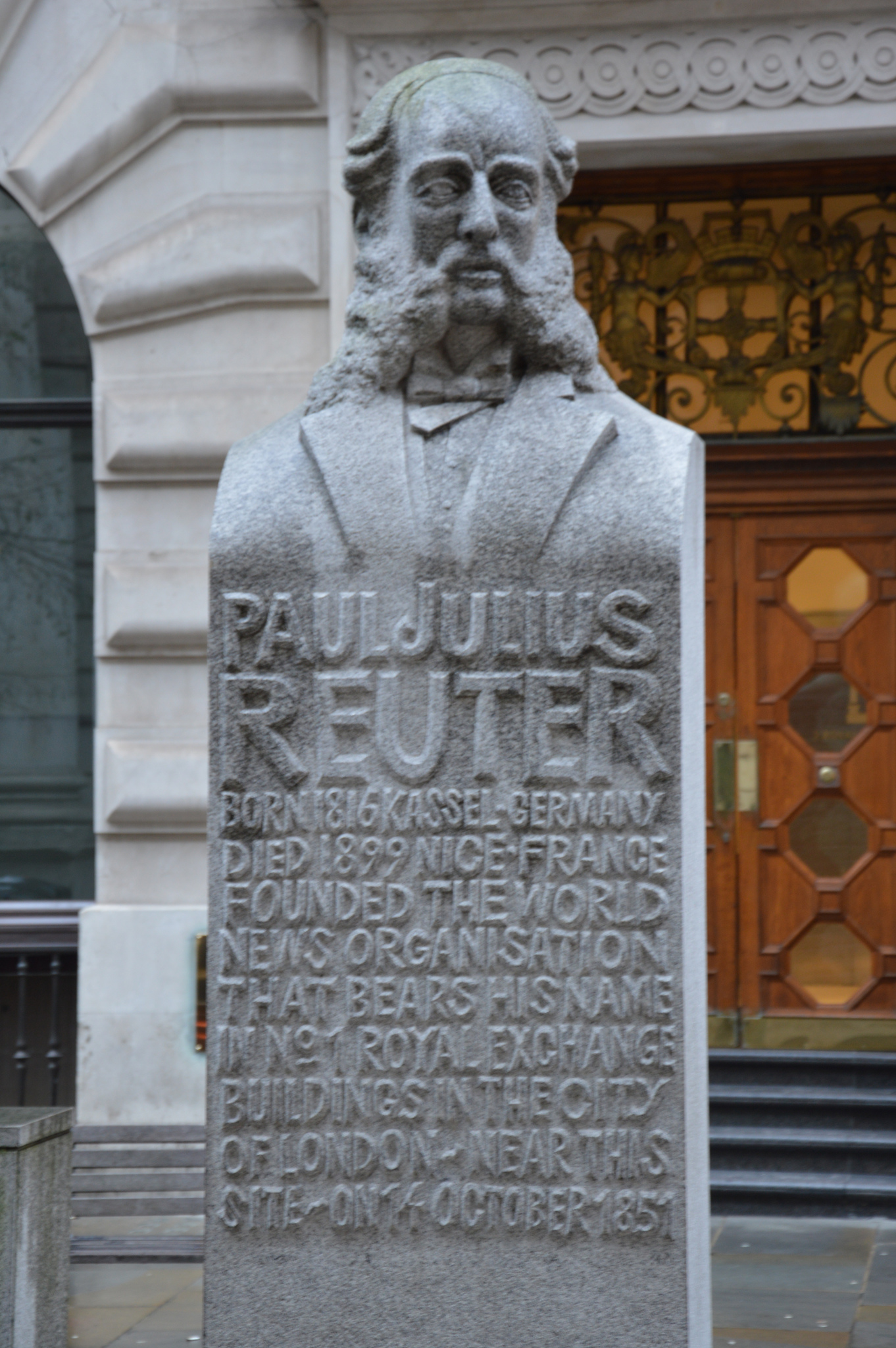 Just off Threadneedle, near the Royal Exchange Sculptor: Michael Black (1976) "Paul Julius Reuter. Born 1816 Kassel Germany, died 1899 Nice, France. Founded the world news organisation that bears his name in No 1 Royal Exchange Buildings in the City of London near this site on 14 October 1851."